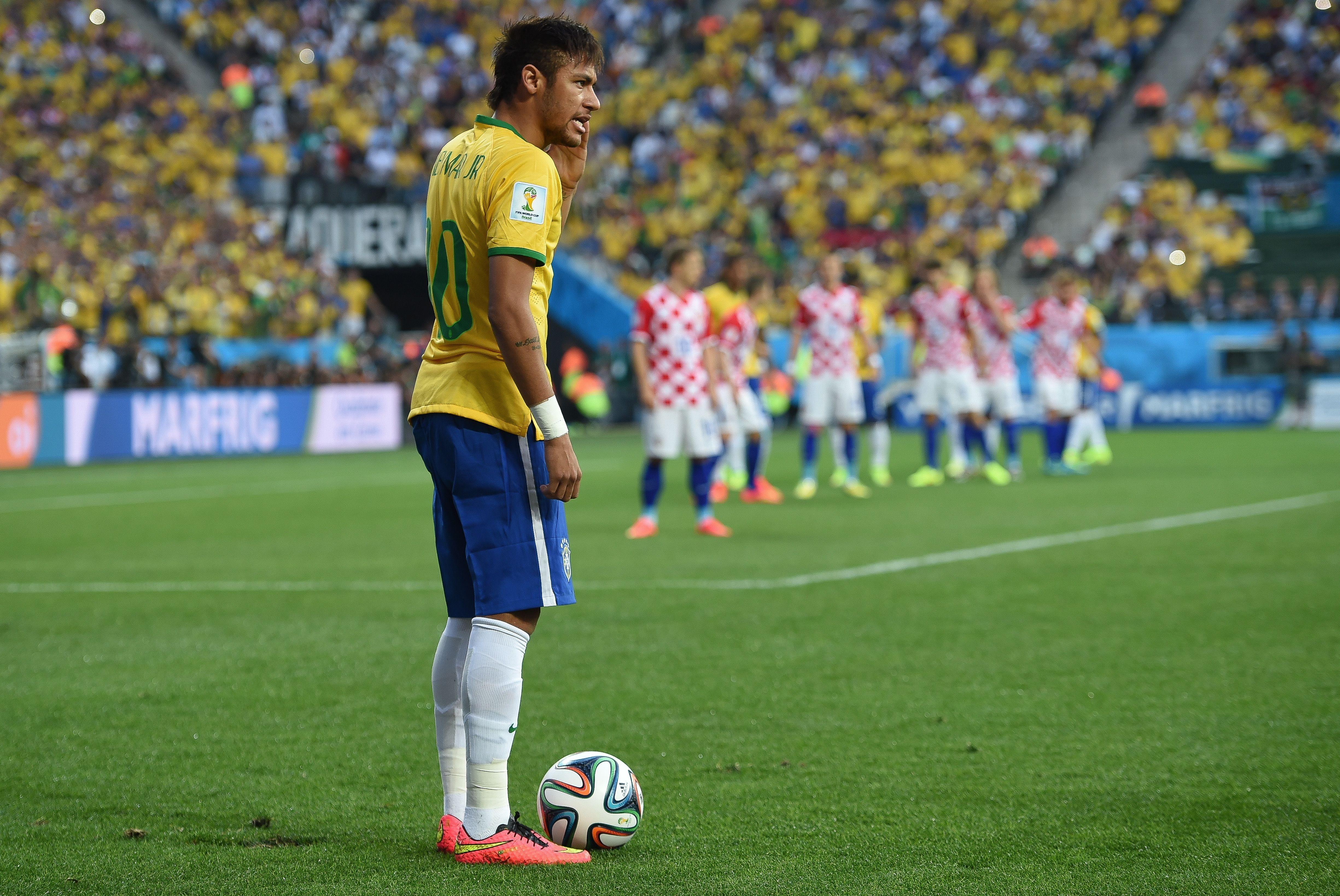 Brazil and Croatia match at the FIFA World Cup 2014-06-12